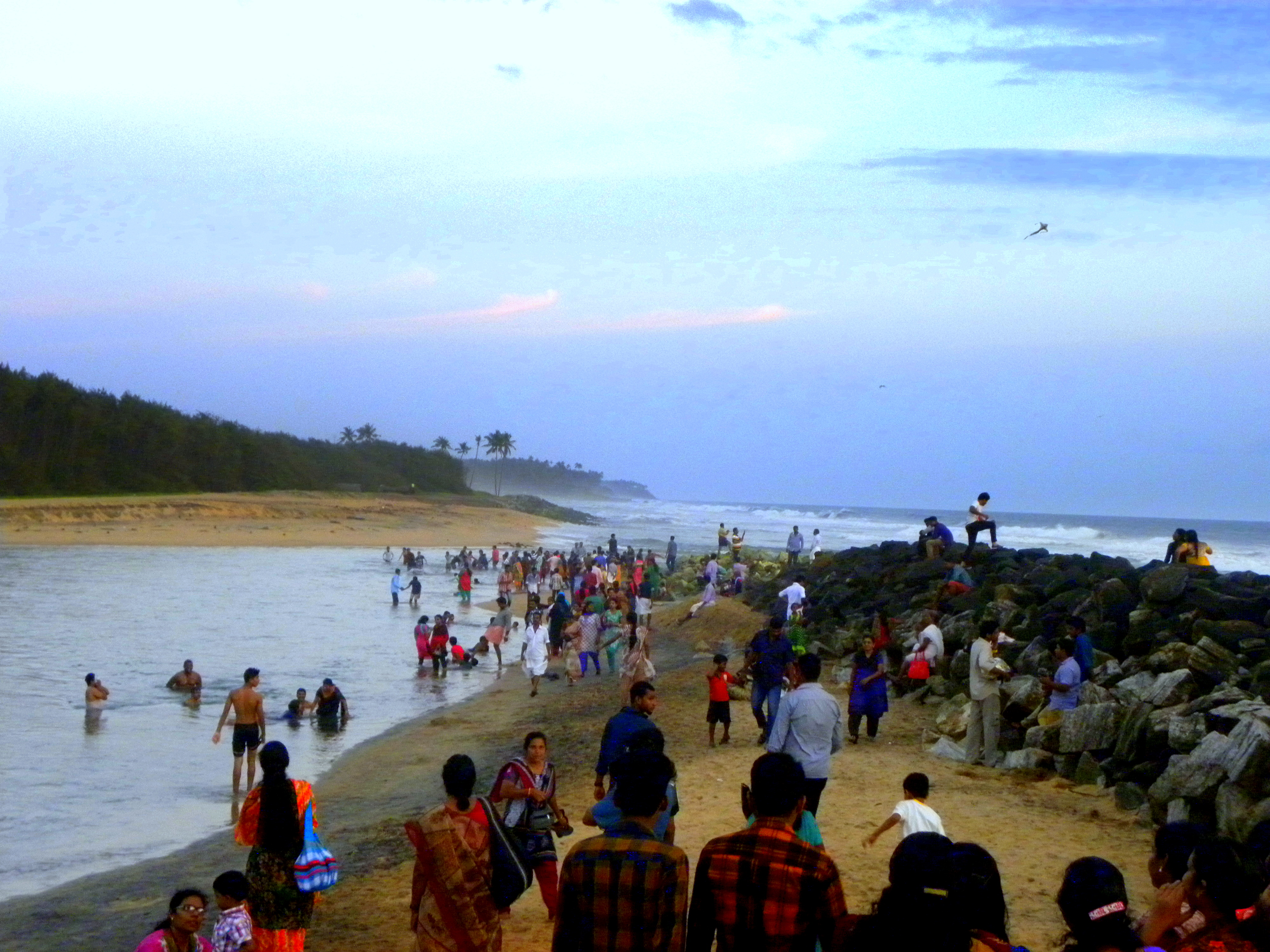 Thekkumbhagam Estuary - One of twin estuaries in Paravur, Kollam